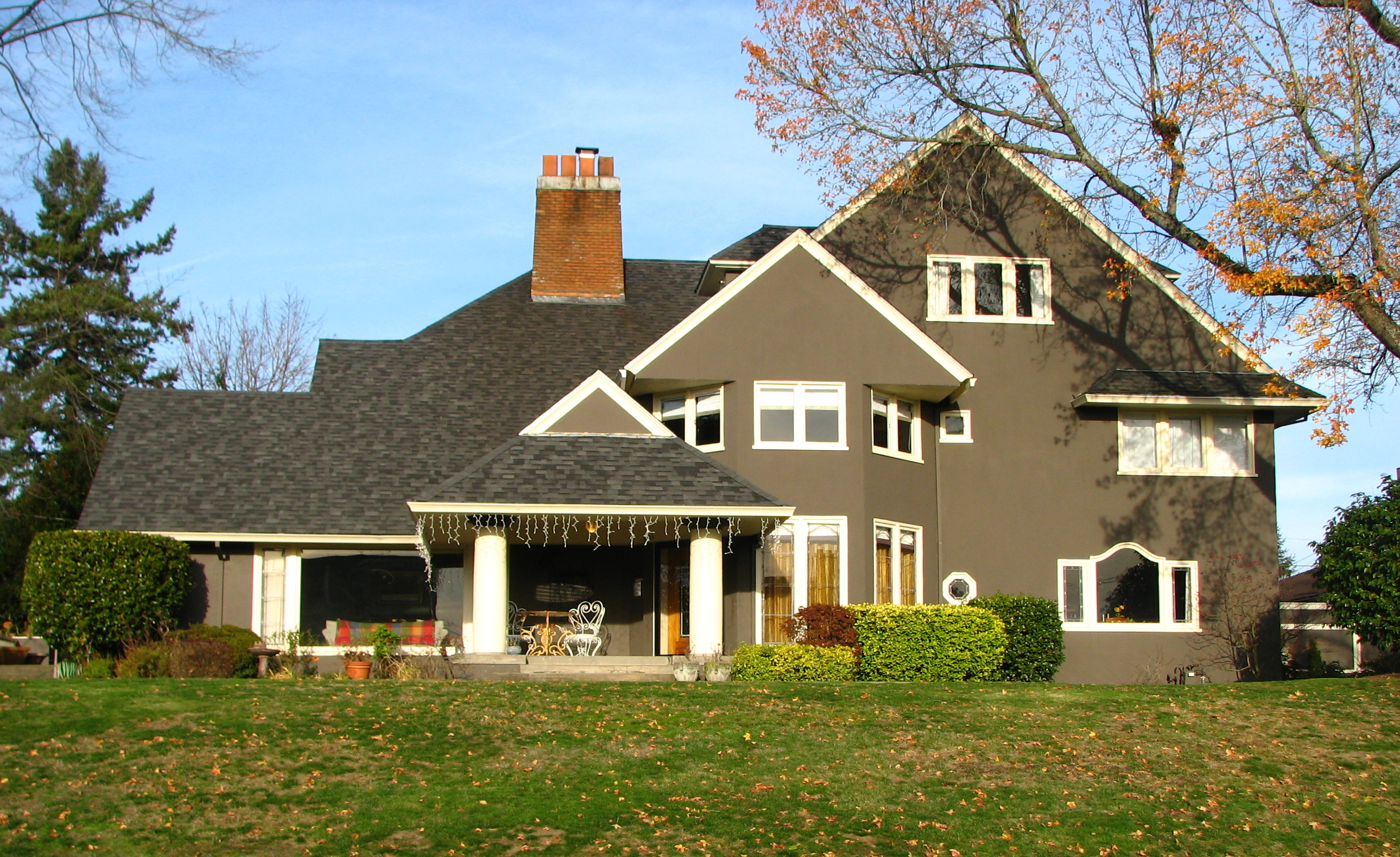 The historic Louis and Elizabeth Woerner House (built 1922), located at 2815 Northeast Alameda Street in Portland, Oregon, United States, is listed on the US National Register of Historic Places.